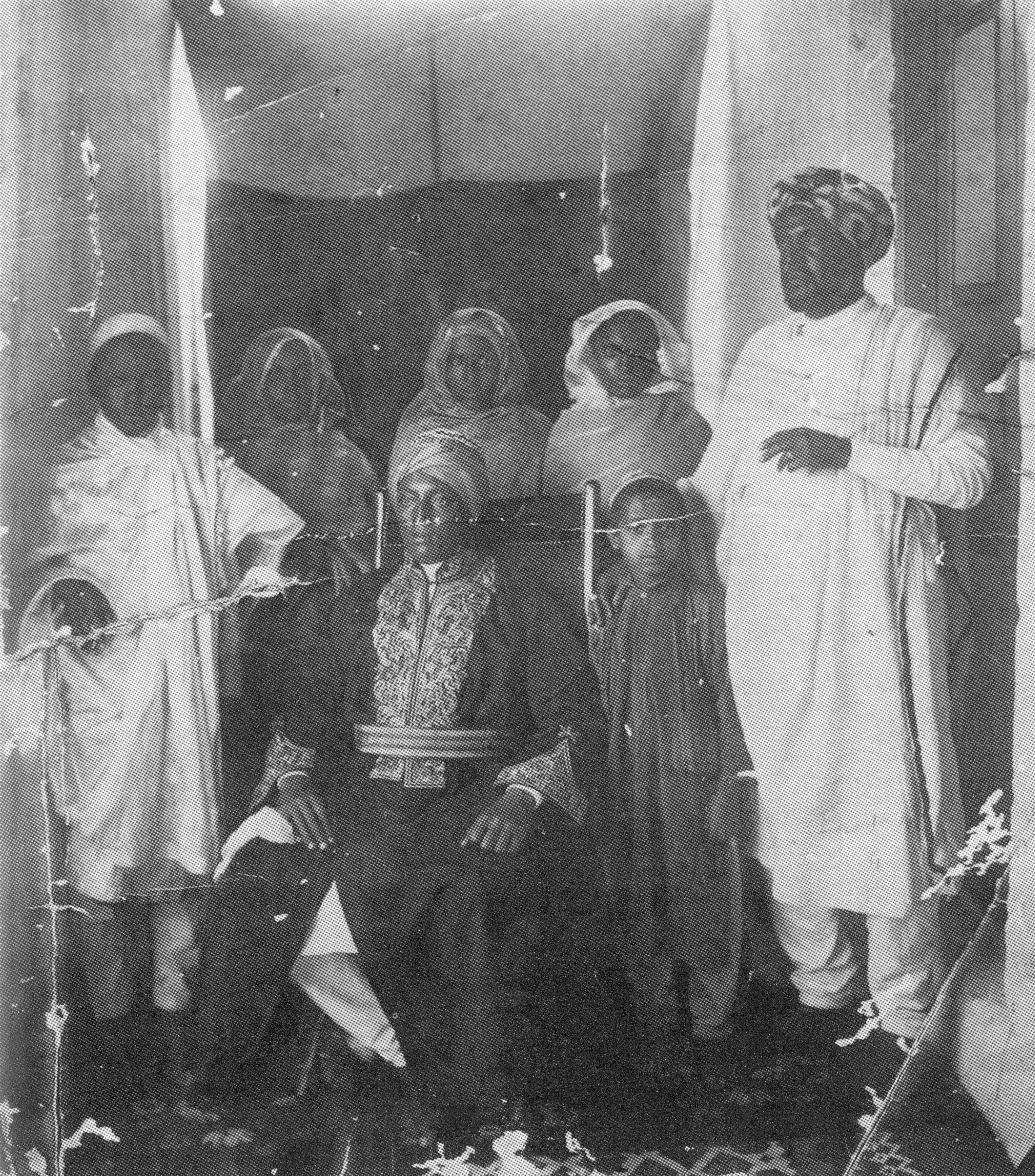 Iyasu V, uncrowned Emperor of Ethiopia in a muslim turban